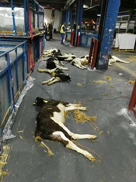 Calves from Hungary, less then a month old, dead in Ben Gurion air port Israel. The calves were part of live export of 1200 calves, about 100 died on the journey. Photograph by ALF Israel